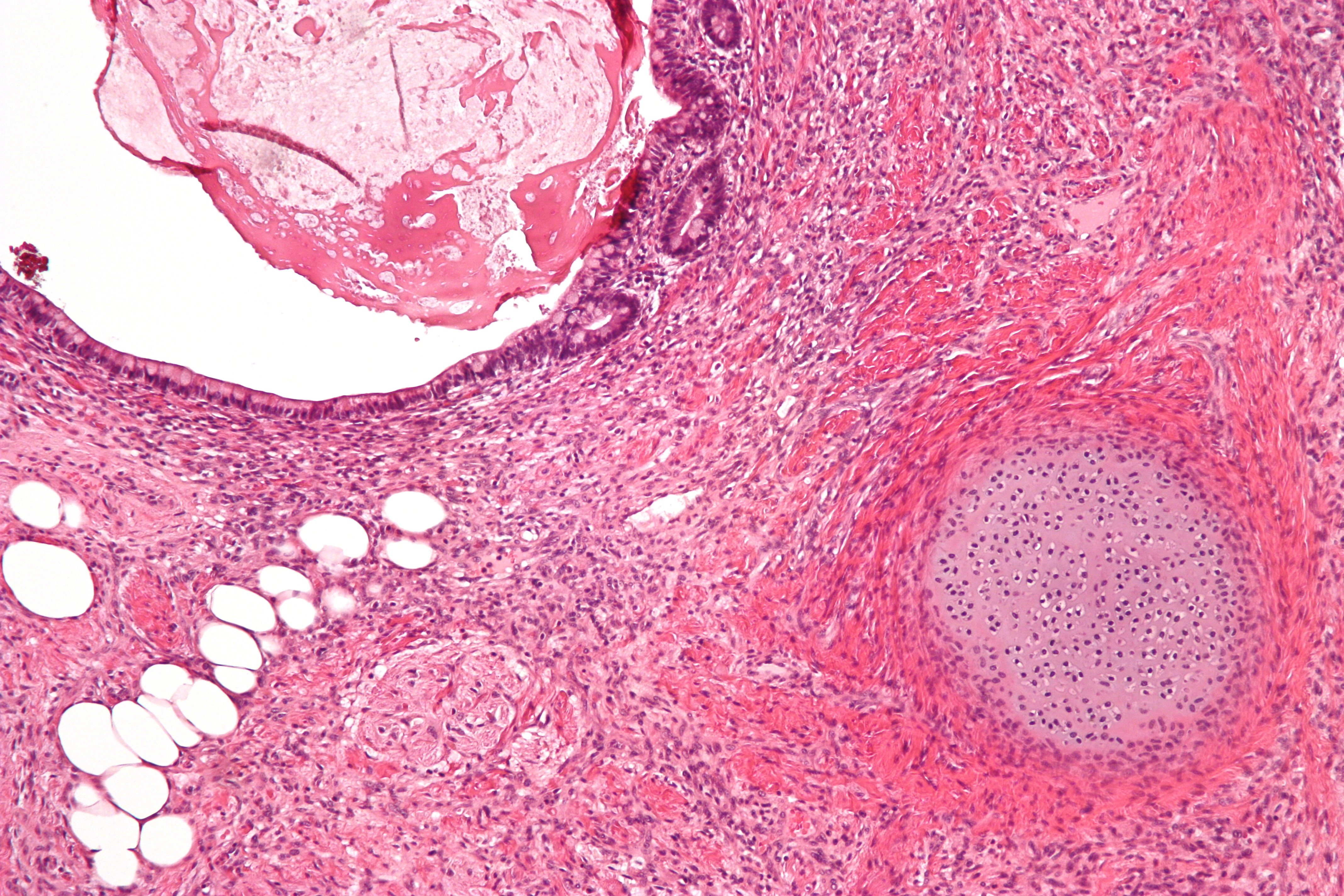 Micrograph of a teratoma. Only mature tissues are shown. H&E stain. See also Image:Immature teratoma high mag.jpg